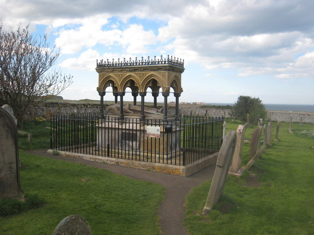 The Grace Darling memorial In the churchyard of St Aidan's Church, this monument was paid for by public subscription from a fund started by Queen Victoria. Her effigy became badly corroded by the sea air and was replaced by this one in a more durable material. The original is now inside the church. She is buried in the family grave some yards away from the memorial.